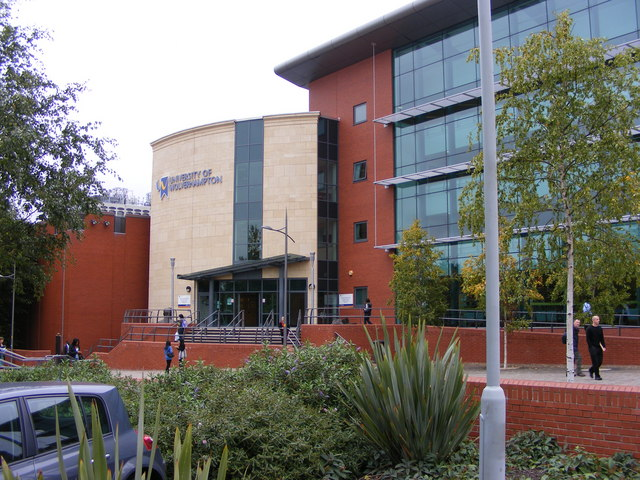 University of Wolverhampton Library The view from Wulfruna Street.